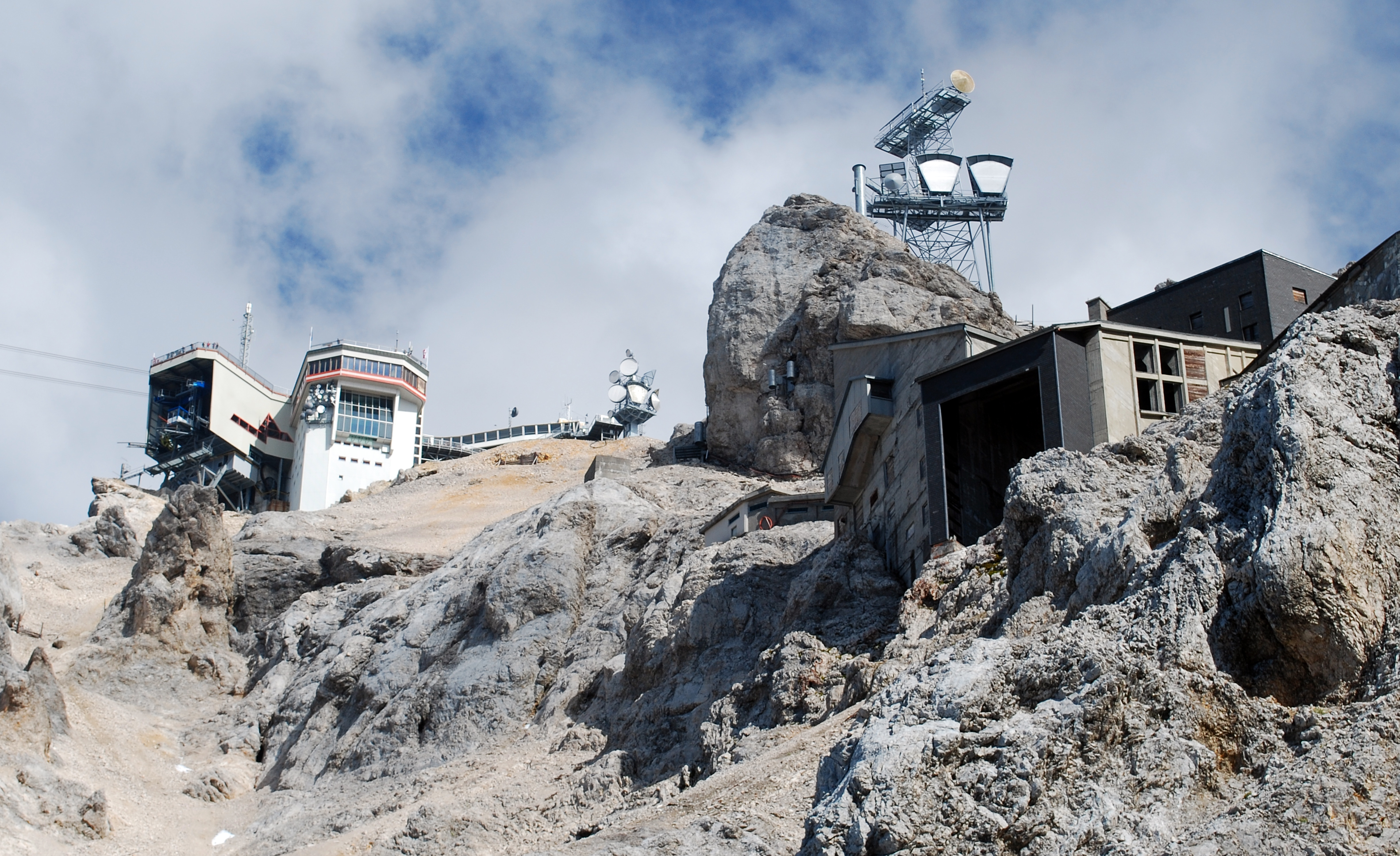 Ehrwalder Zugspitzbahn